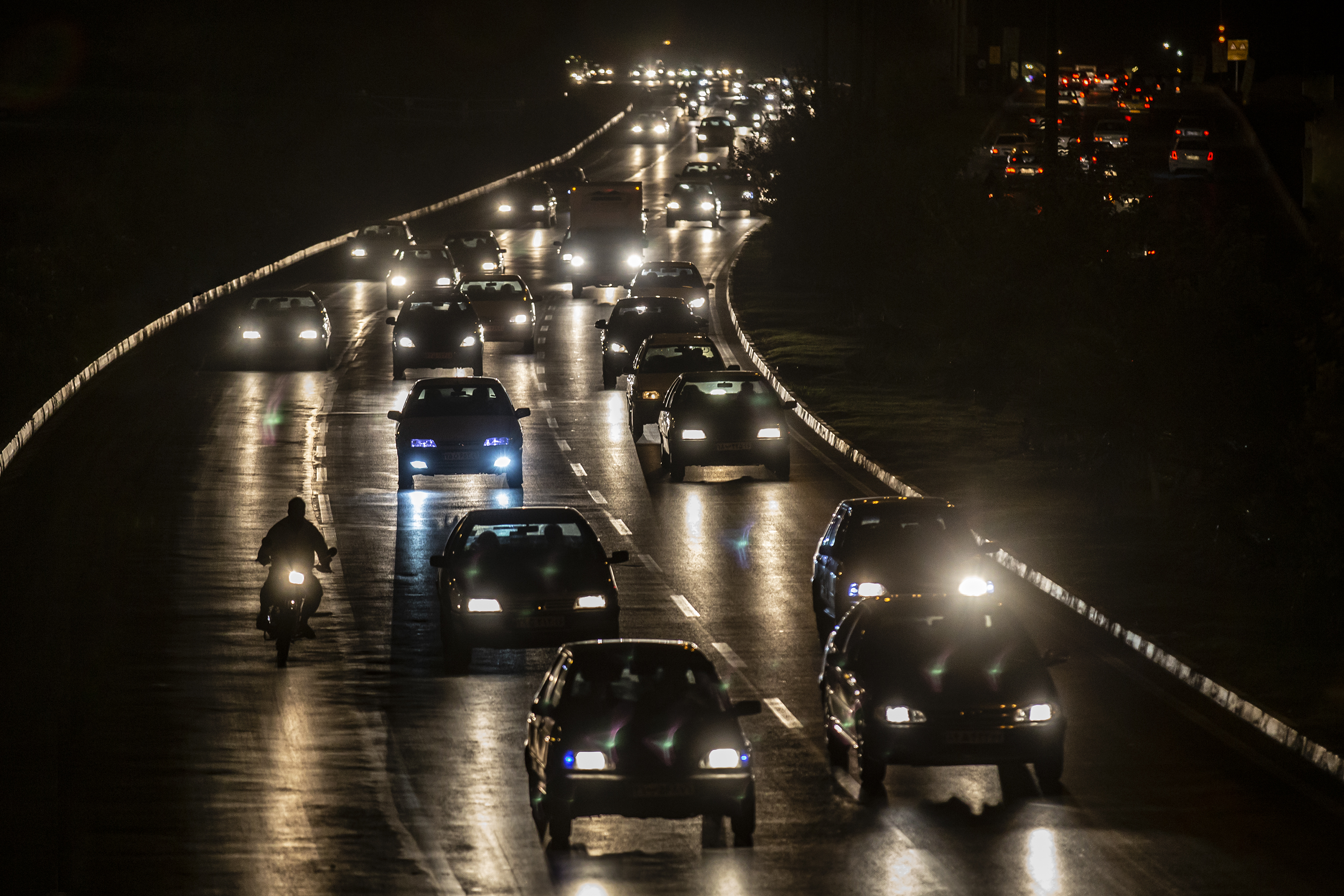 Qom is the seventh largest metropolis and also the seventh largest city in Iran.